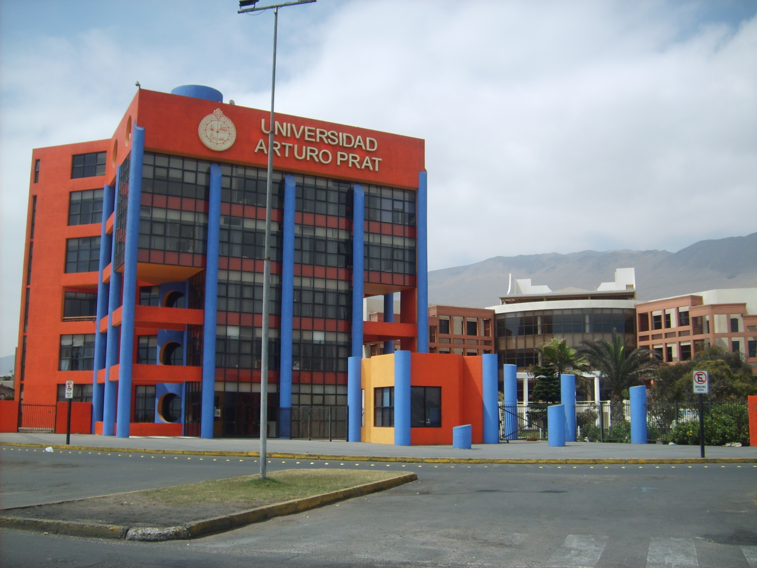 Frontis de la Universidad Arturo Prat Iquique